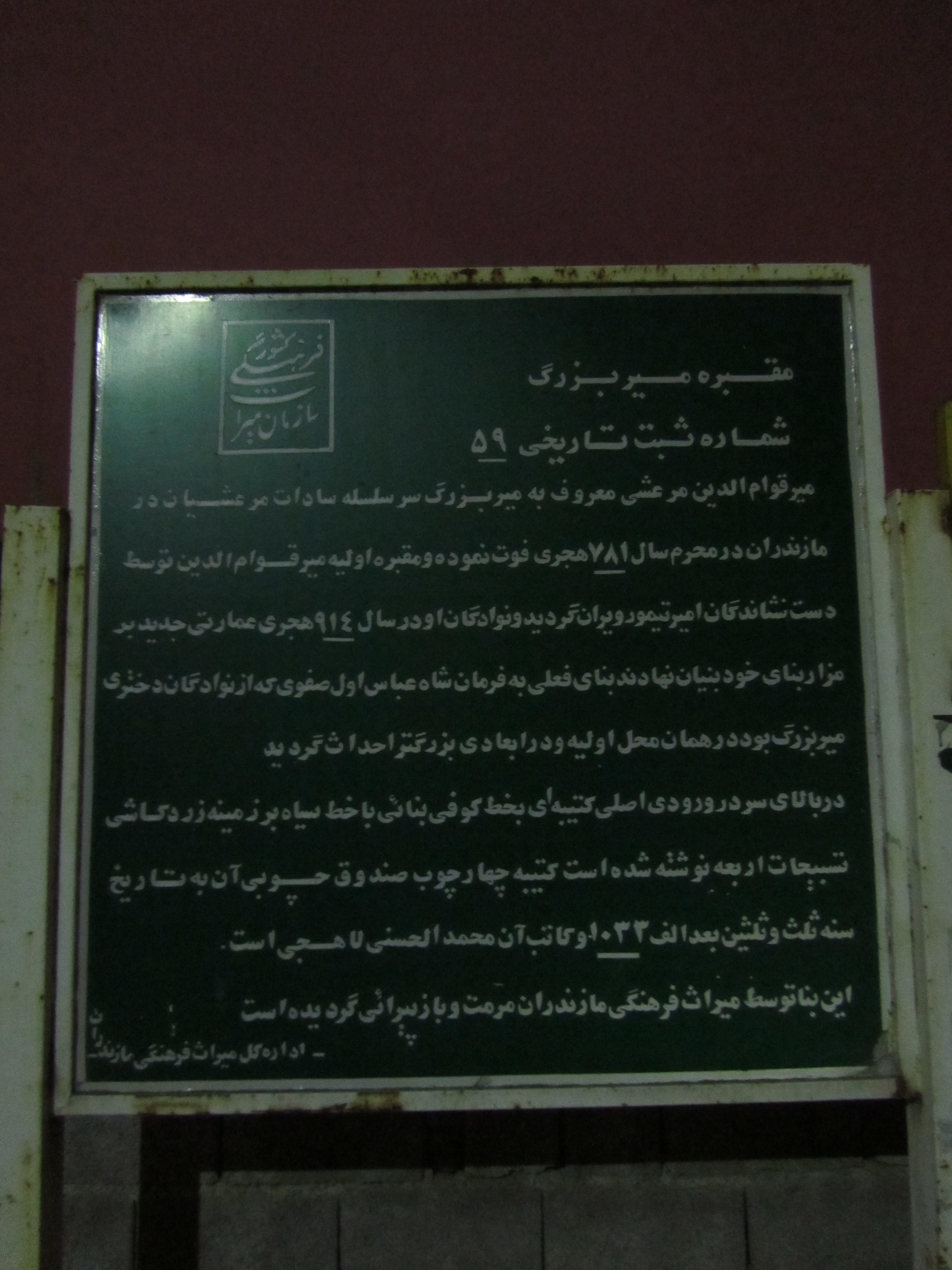 Mir Bozorg Monument's singpost without flashlight